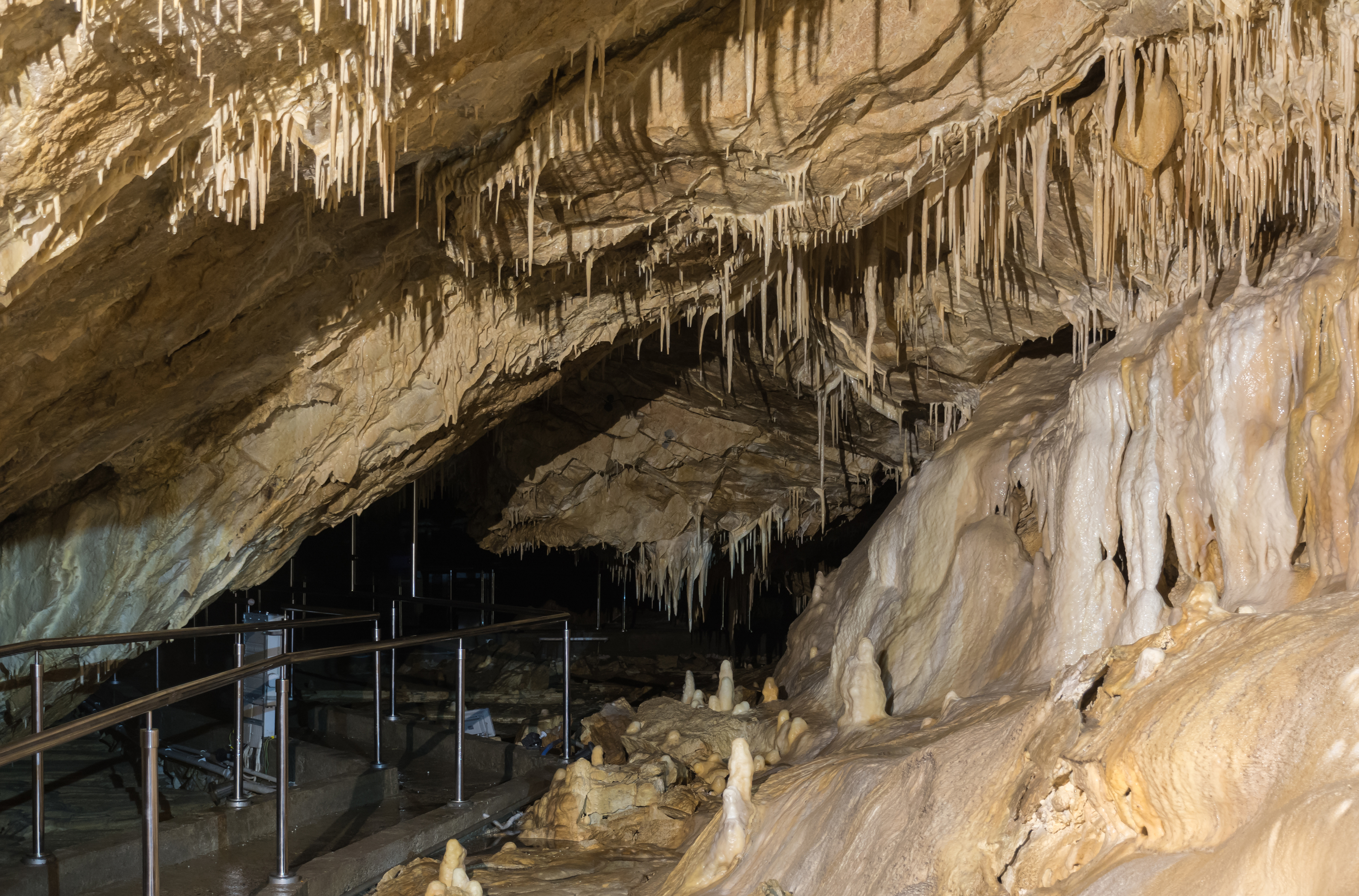 Bear Cave in Kletno (Lower Silesia, Poland), speleothems This is a photography of Natura 2000 protected area with ID PLH020016